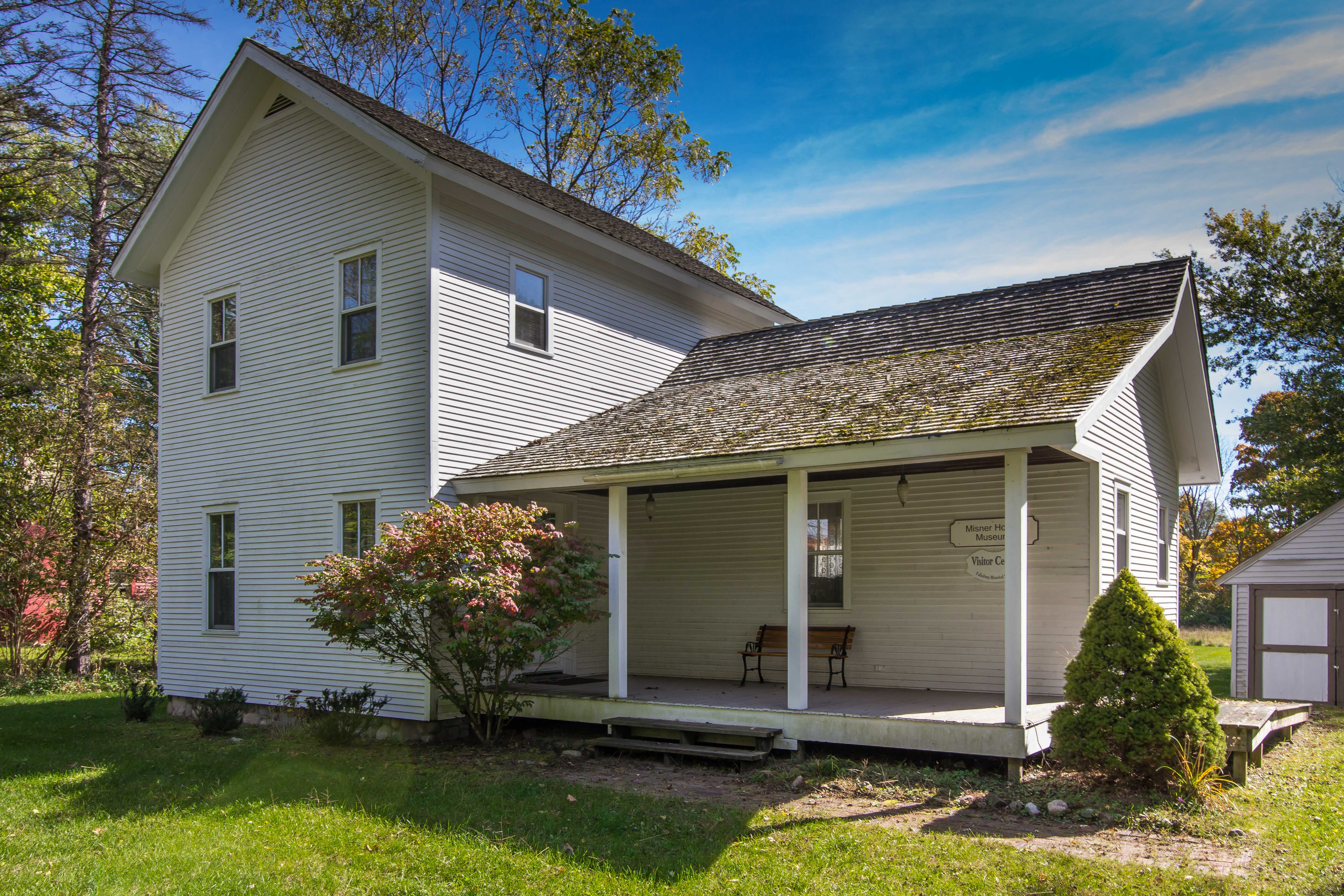 Fallsburg Historic District